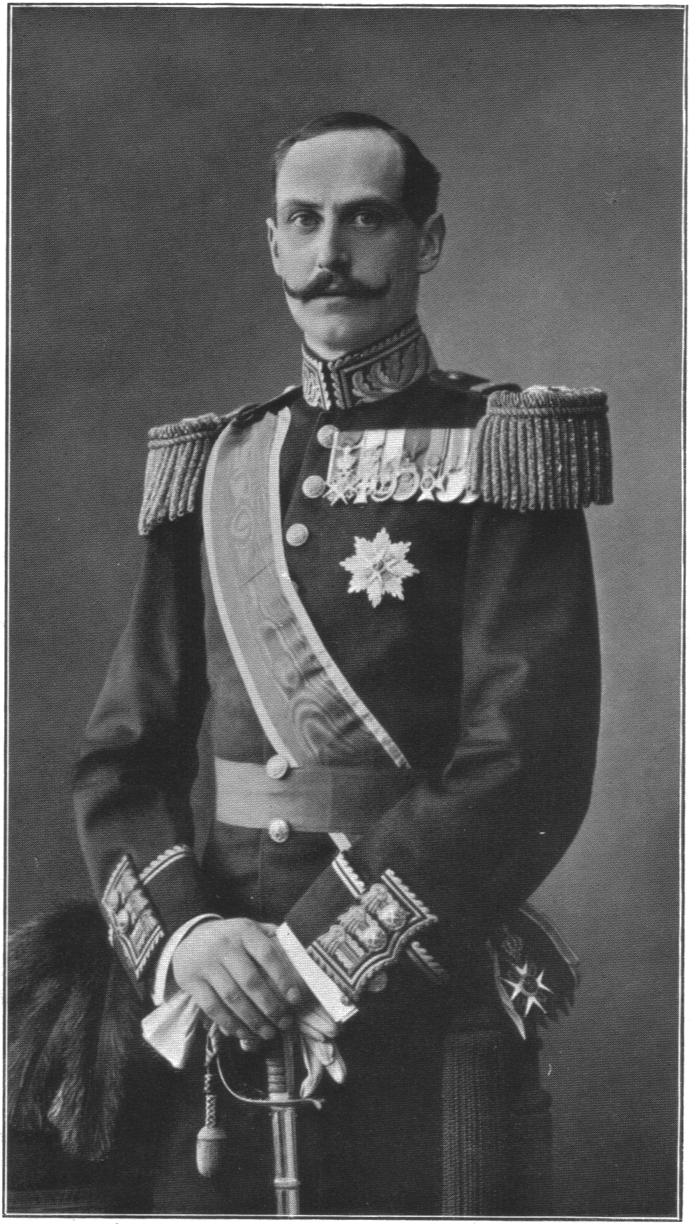 King Haakon VII of Norway (1872-1957)